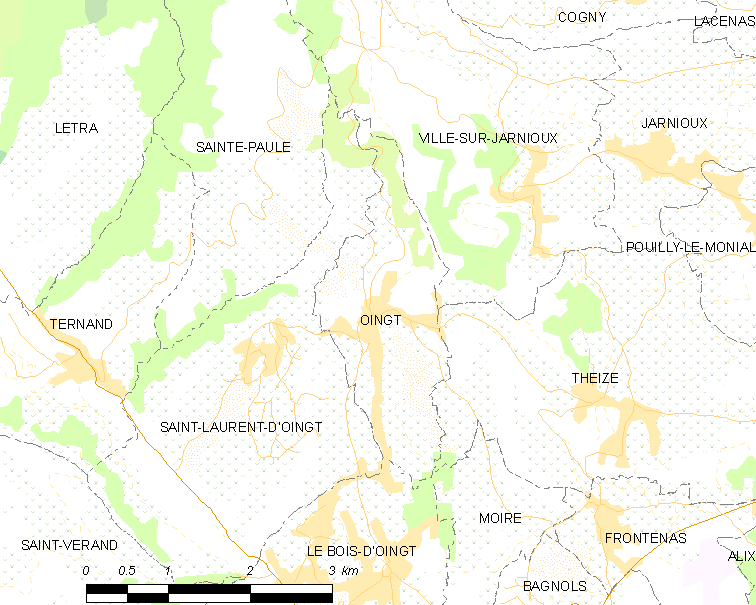 Map of French municipality